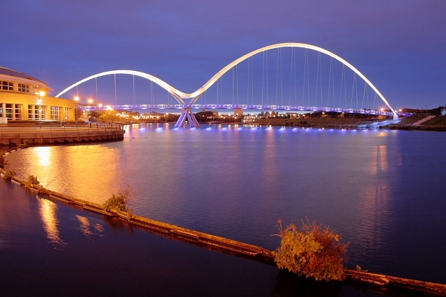 Infinity Footbridge The new North Shore footbridge over the River Tees, built at a cost of £15m, was opened in May 2009 and renamed the Infinity Bridge on account of its shape when reflected in the river resembles the mathematical symbol for infinity. It was too breezy on this day to see this. To the left is the Teesside campus of the University of Durham. In the foreground is a barrier shielding off one of the many lagoons around which the campus is built.